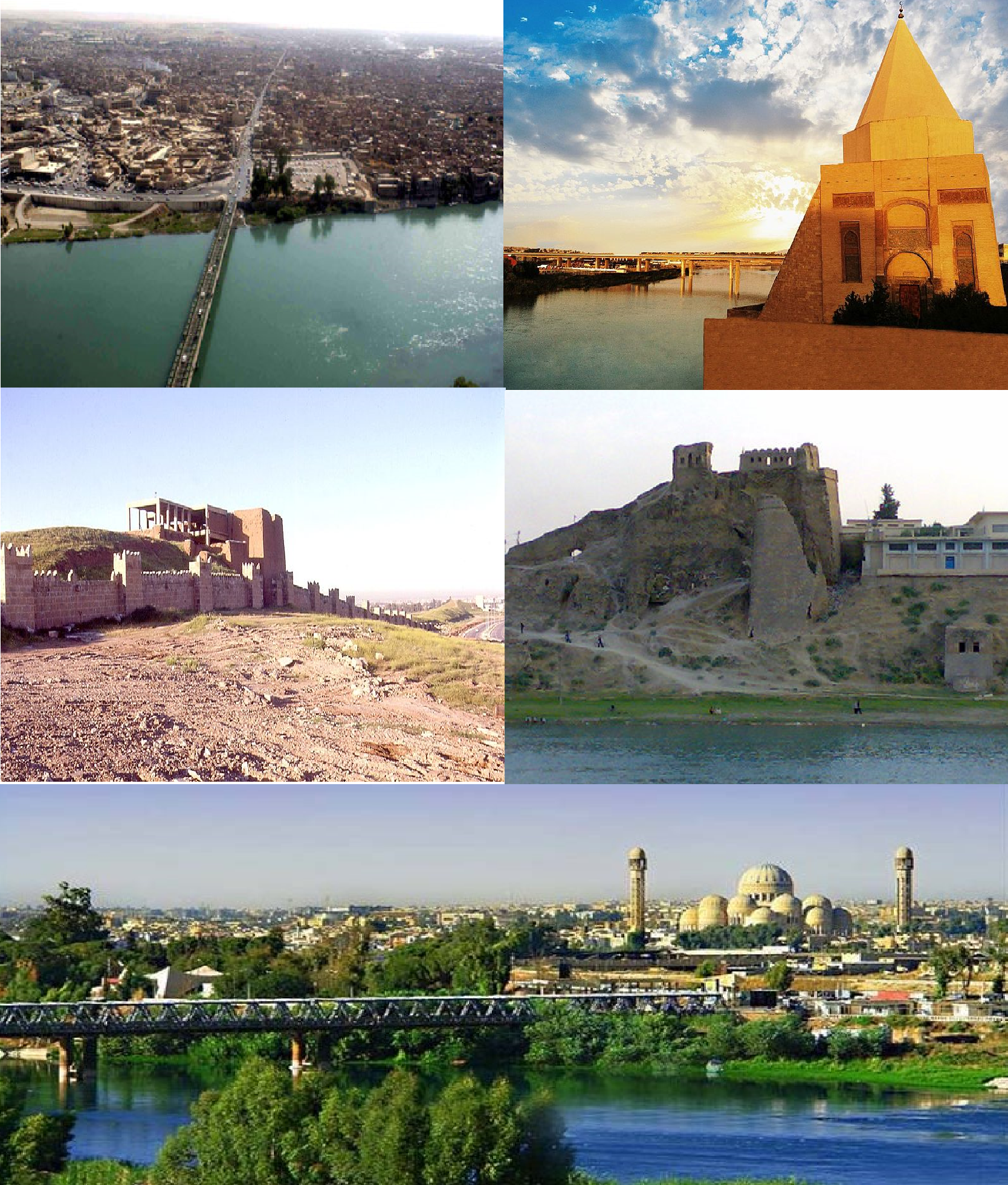 Collage of the Iraqi city of Mosul